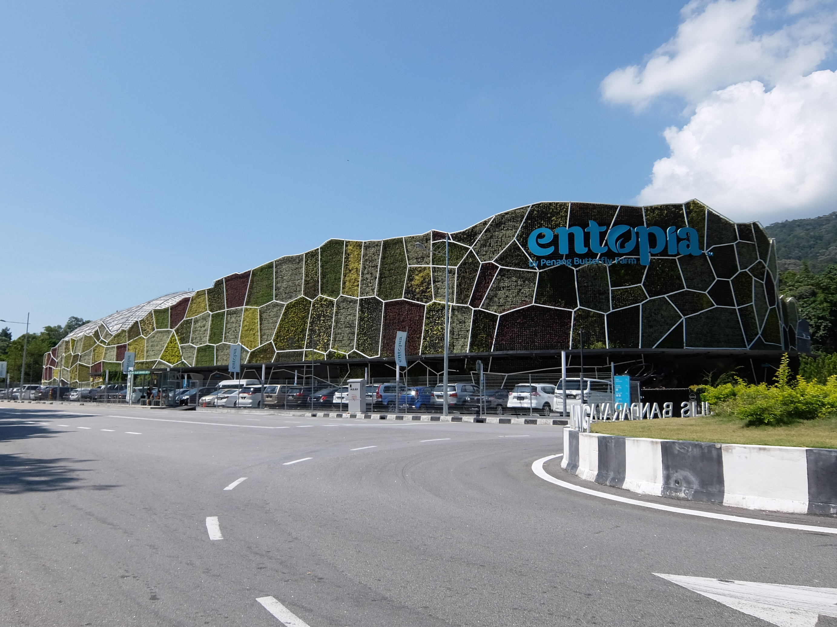 Entopia by Penang Butterfly Farm, Teluk Bahang, Southwest Island, Penang, Malaysia